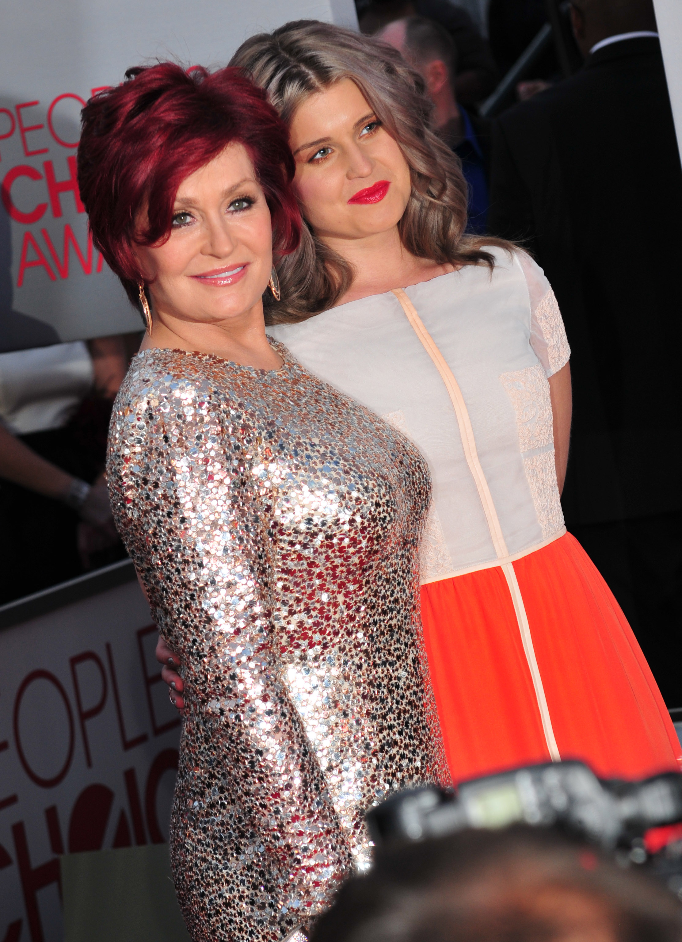 Sharon Osbourne and Kelly Osbourne on the red carpet at the 38th People's Choice Awards on January 11, 2012, at the Nokia Theatre in Los Angeles, California.